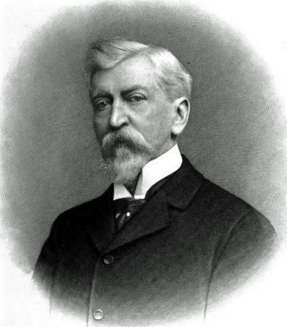 Portrait of Governor William E. Cameron